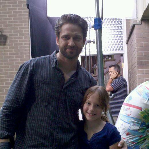 Photo with Gerard Butler and Mandalynn Carlson on the set of Machine Gun Preacher, filmed in Michigan 2010.